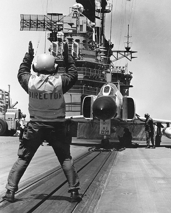 A Flight Deck Director signals an McDonnell Douglas F-4J "Phantom II" fighter into position on the starboard catapult, in preparation for launching.